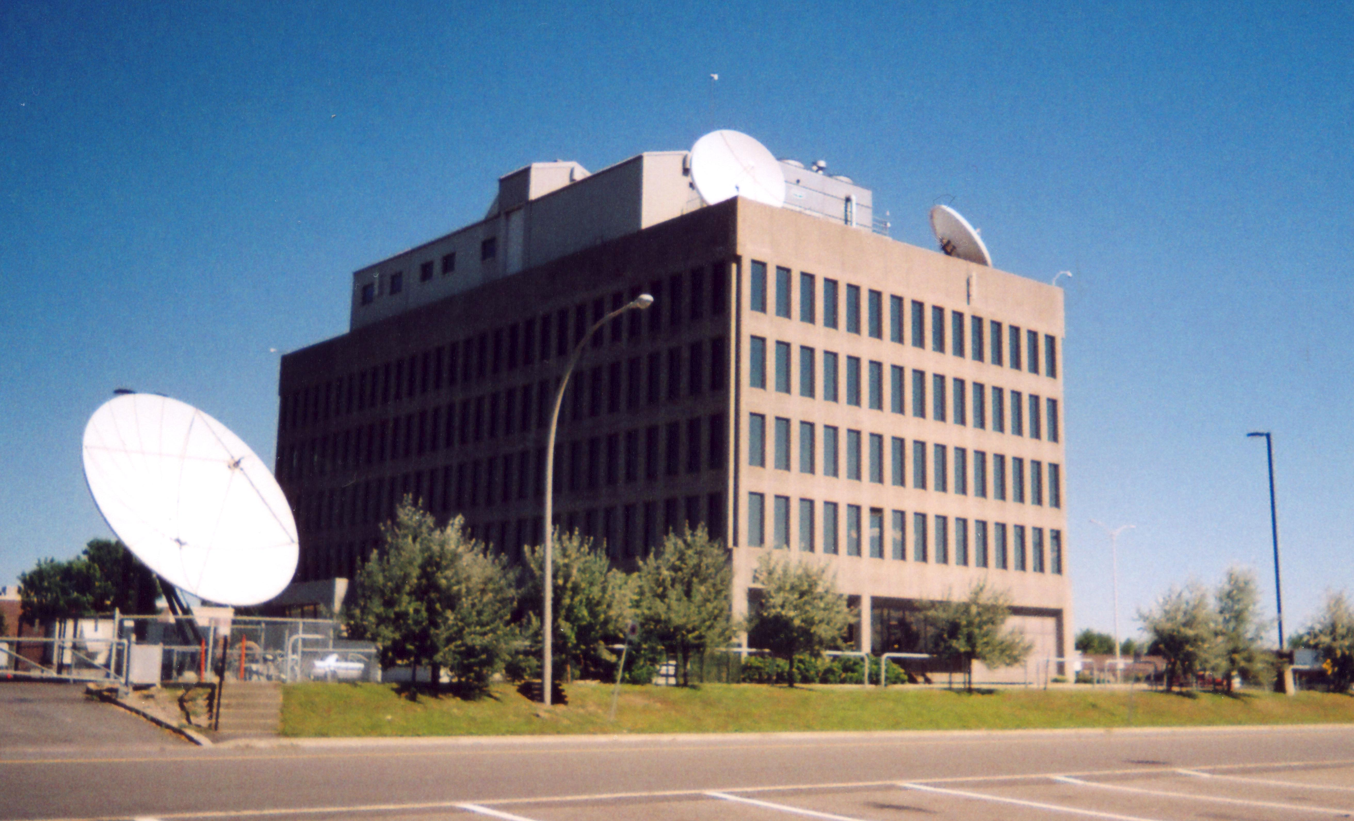 View fromt the West of the Canadian Metetorological Center in Dorval, a Montreal suburb of Montreal, Canada